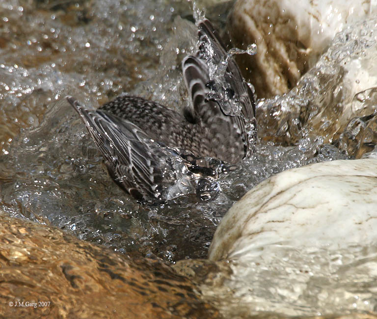 Brown Dipper Cinclus pallasii at Kasol (6500 ft.) in Kullu District of Himachal Pradesh, India.